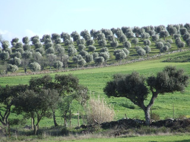 Olive groves outside of Castro Verde